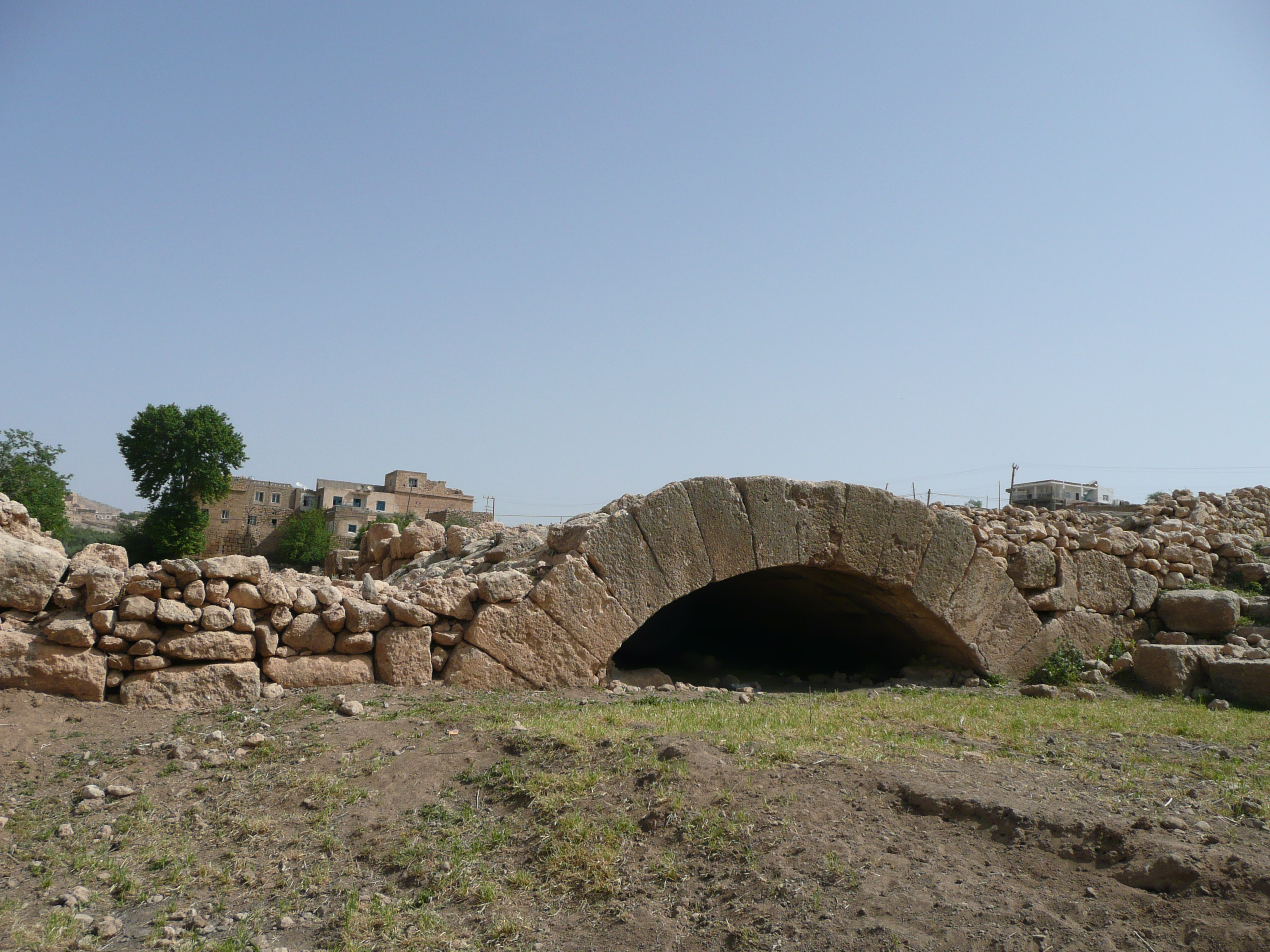 Photographs from Dara, Mardin, Turkey